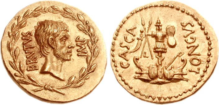 Brutus. Late summer-autumn 42 BC. AV Aureus (8.01 g, 12h). Military mint traveling with Brutus and Cassius in western Asia Minor or northern Greece. P. Servilius Casca Longus, moneyer. Bare head of Brutus right, wearing short beard; BRVTVS behind, IMP before; all within laurel wreath / A combined military and naval trophy, consisting of a cuirass, a crested helmet on the top, a curved sword and two crossed spears on the left arm, and an oval shield with incurved sides on the right, set on a post made from a tree trunk; at base, two prows, two shields, and a rudder; on left, between the two spears, the letter L (= Libertas or Lycia); CASCA on left, LONGVS on right. Crawford 507/1b (same obv. die as illustration); CRI 211; Bahrfeldt 65b; Calicó 56; Sydenham 1297 (same obv. die as illustration); Kestner -; BMCRR East 62 (same obv. die); CNR 7 = Hess-Leu 1961, lot 14 (same dies); Junia 46 and Servilia 37; Kent & Hirmer 99 (same obv. die). A coin of great beauty, with a superb high relief portrait, boldly struck from fresh dies. Undoubtedly the finest known portrait of Brutus in gold. One of 17 examples known of this issue (of which eight are in museums), the earliest known strike from this obverse die.